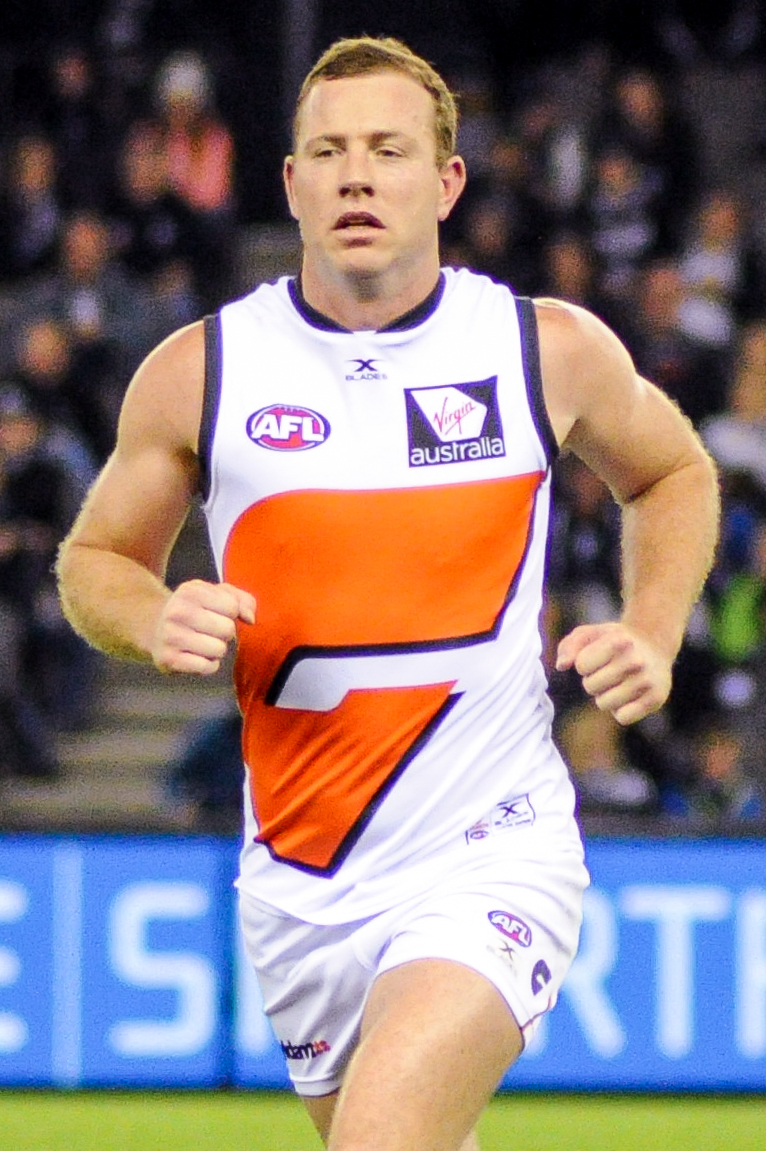 Steve Johnson during the AFL round twelve match between Carlton and Greater Western Sydney on 11 June 2017 at Etihad Stadium in Melbourne, Victoria.